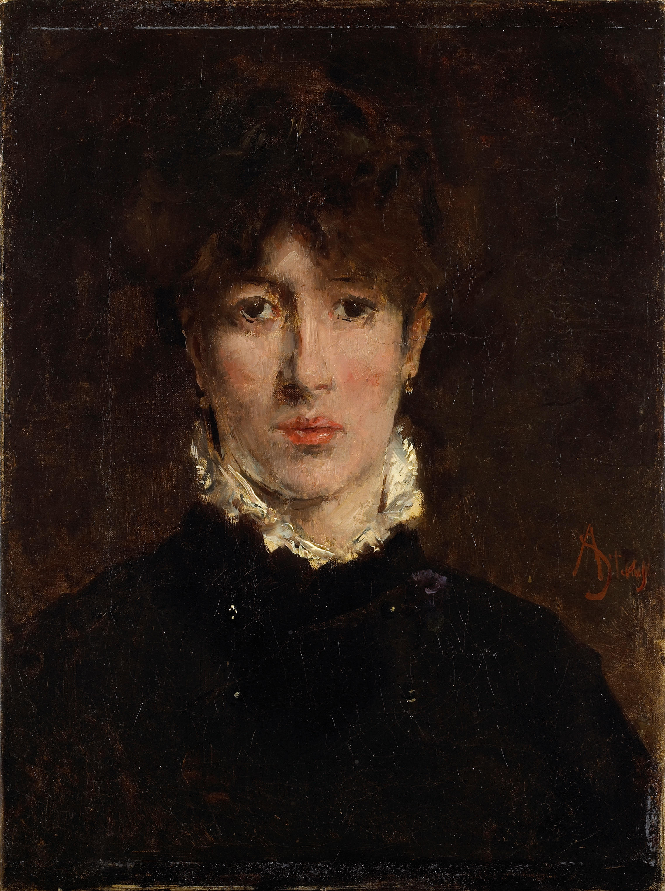 A portrait of Sarah Bernhardt. Signed 'A. Stevens', oil on canvas. 33 x 24.8 cm